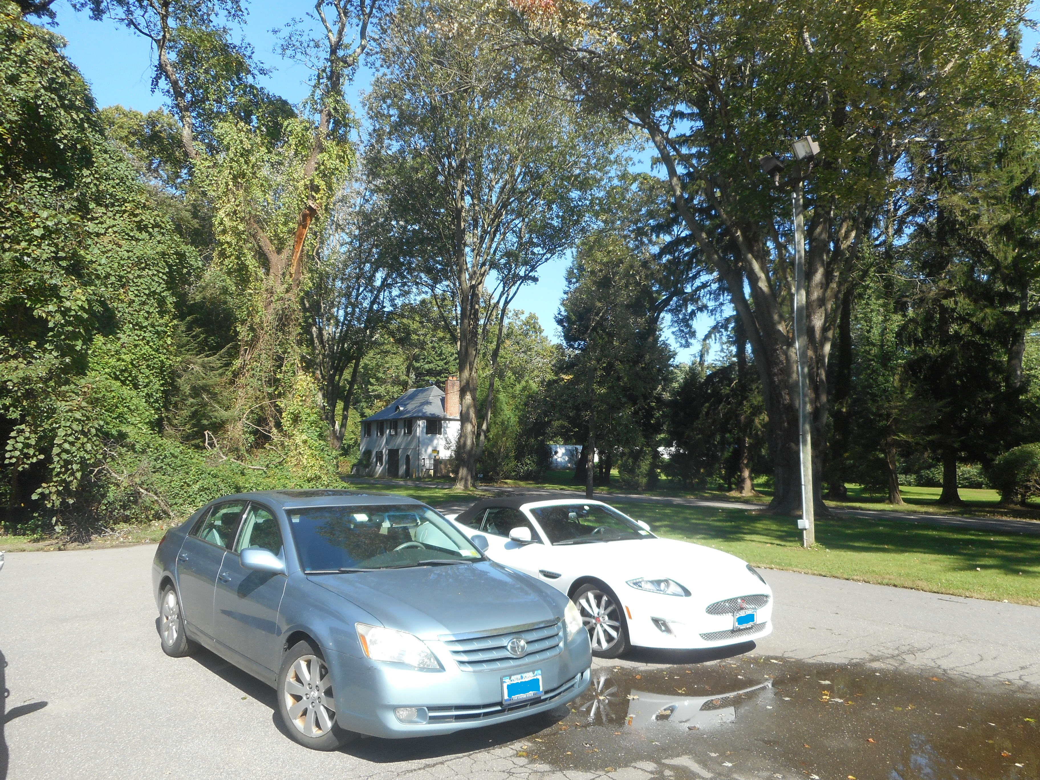 One of two fledgling attempts to capture the Chelsea Mansion, a.k.a., the Benjamin Moore Estate within the northern edges of the Muttontown Preserve off of the south side of New York State Route 25A in Muttontown, New York. Listed on the National Register of Historic Places since May 14, 1979.